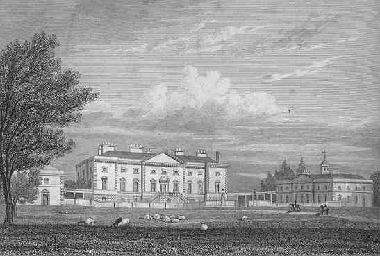 Antique print of Lathom House published circa 1820.